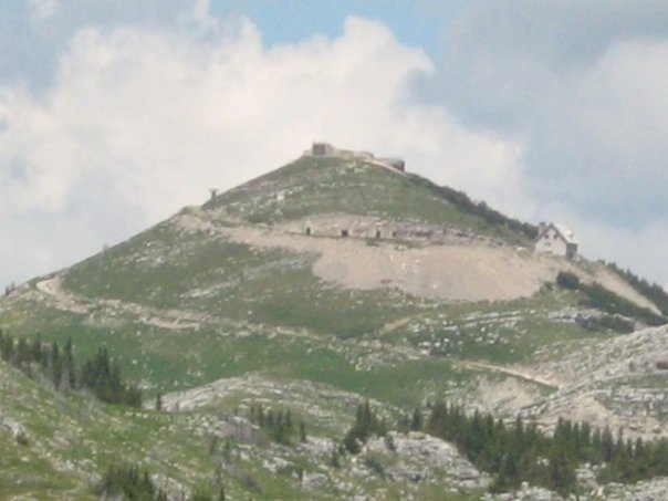 Mount Vitorog